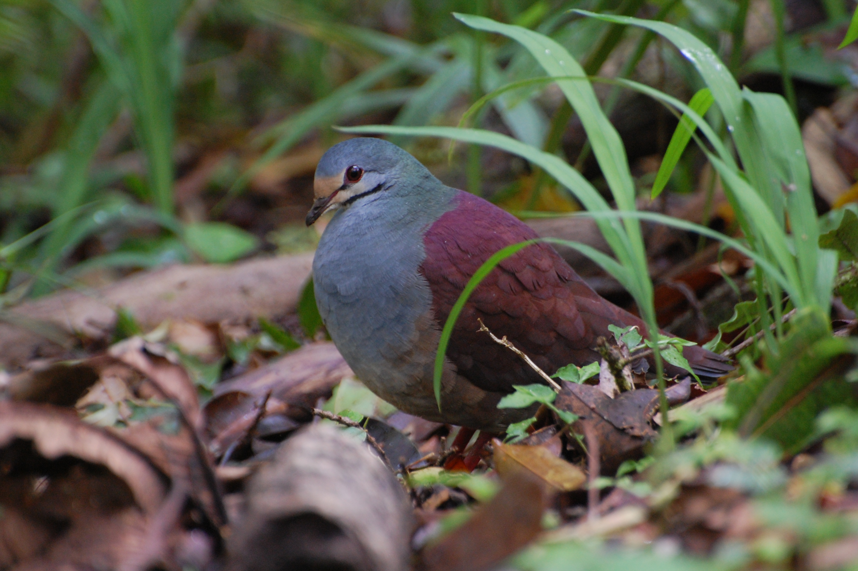 Photo of a Buff-fronted Quail-Dove (Geotrygon costaricensis) at the hummingbird gallery at the Monteverde Cloud Forest Reserve, Costa Rica